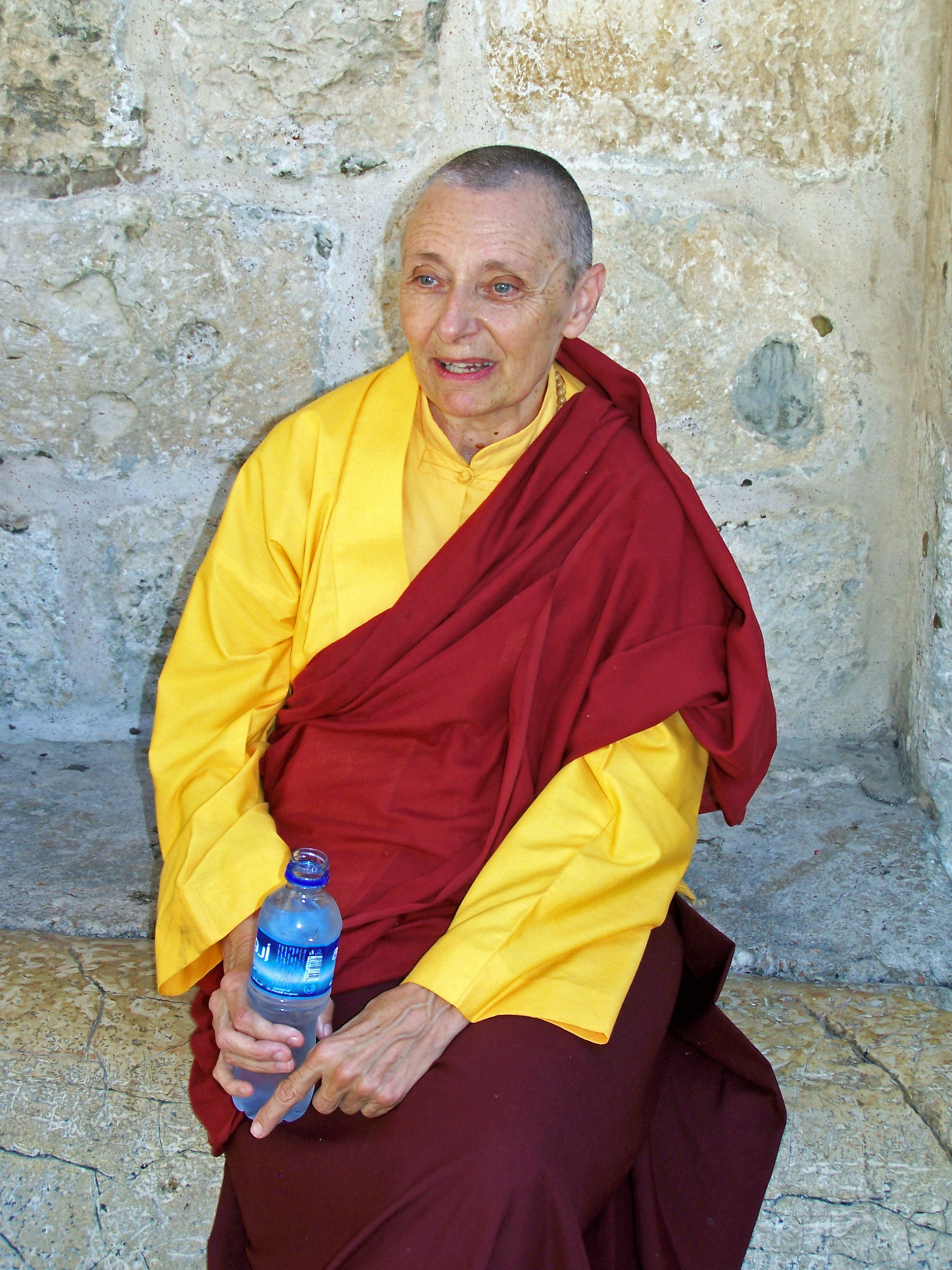 taken by User:Tgumpel Tenzin Palmo at the Church of the Holy Sepulchre, Jerusalem, September 2006 Tenzin Palmo